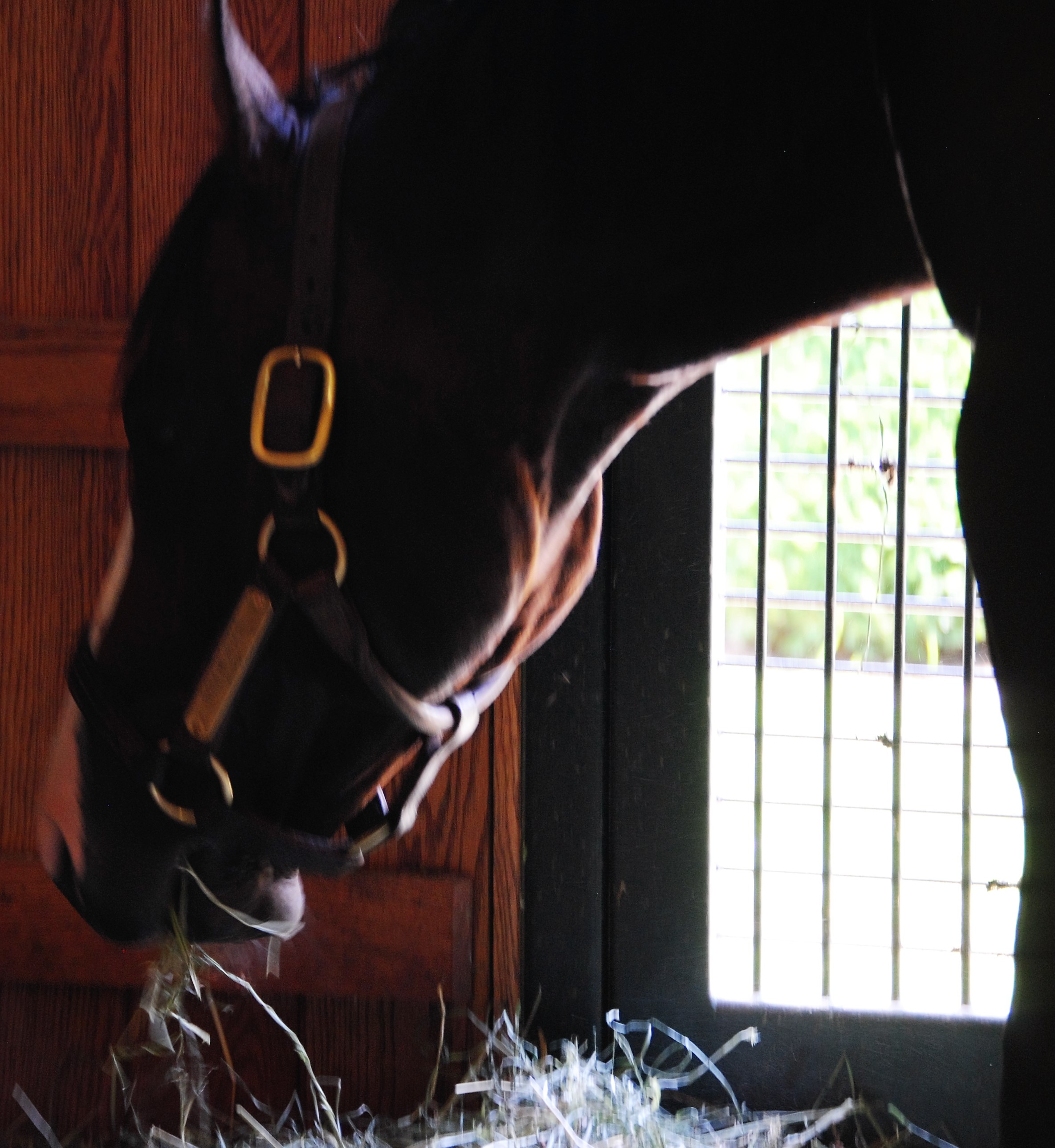 Bodemeister enjoying some hay. July 2015, Winstar Farms